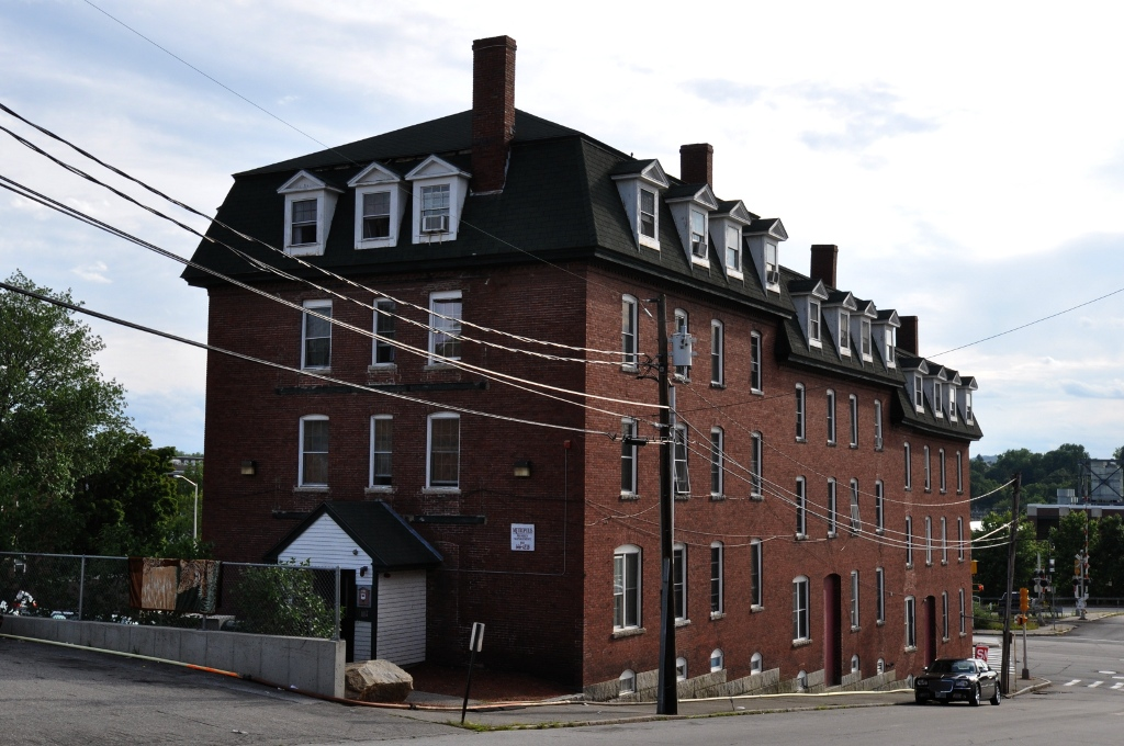 Apartment blocks in the District D historic housing district in Manchester, New Hampshire.